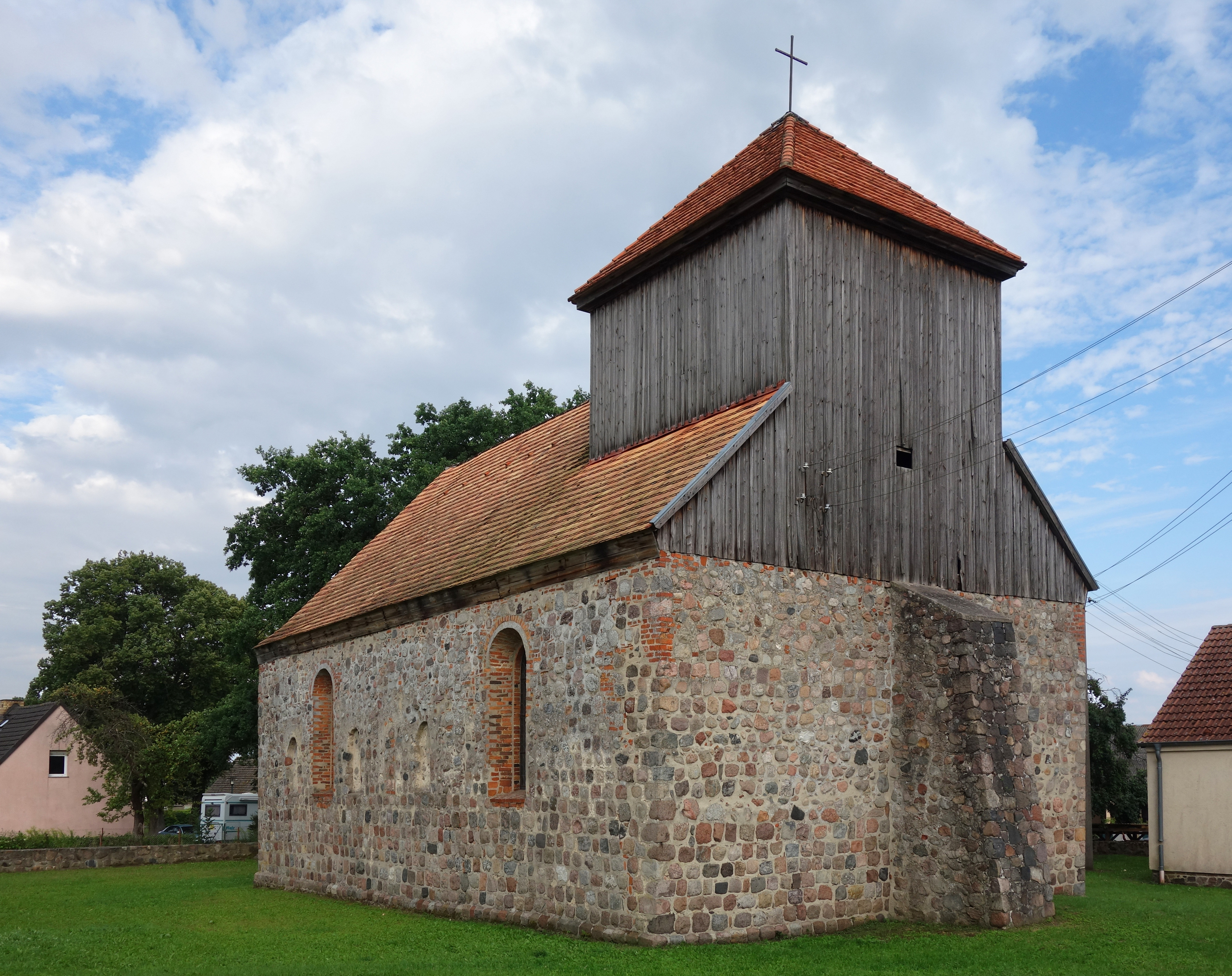 North-western view of church in Beenz showing the buttress on the western wall, Lychen municipality, Uckermark district, Brandenburg state, Germany